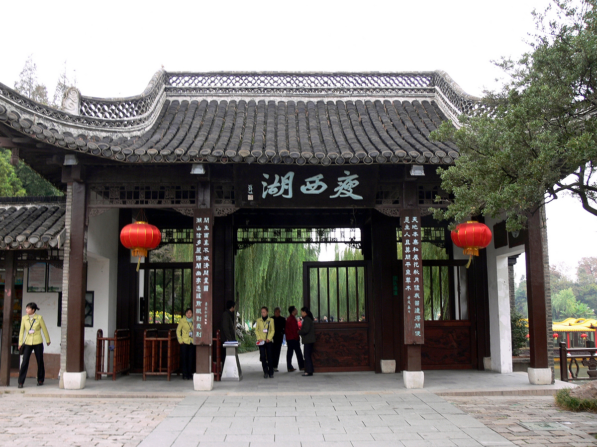 Thin West Lake south entrance 瘦西湖南门